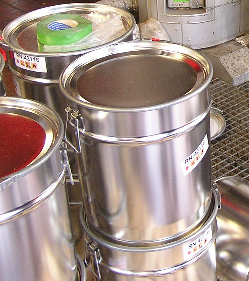 Hobbock (transport bin) made of metal